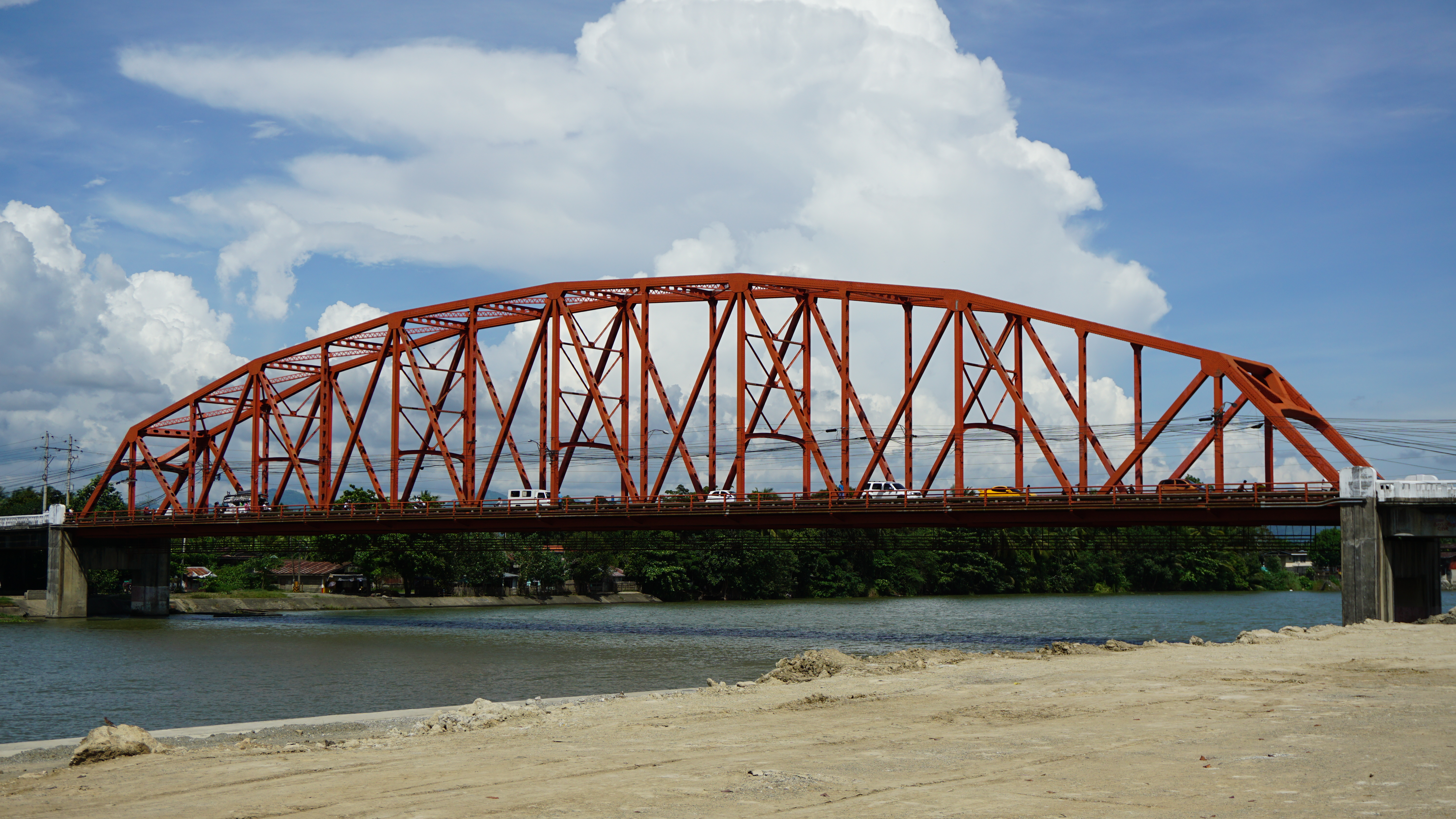 The full view of Magsaysay Bridge. Cebuano: Ang full view sa Tulay sa Magsaysay.